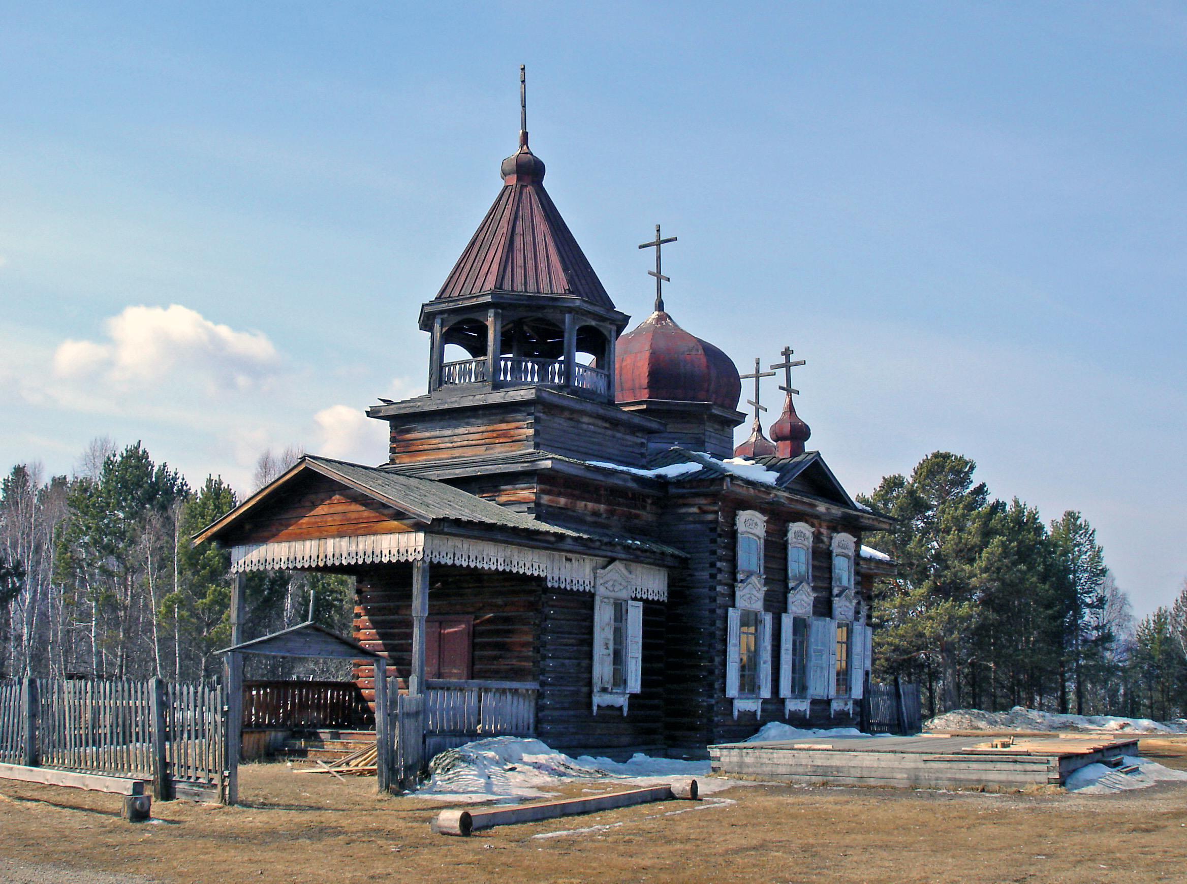 Open Air Museum Talzy near Lake Baikal